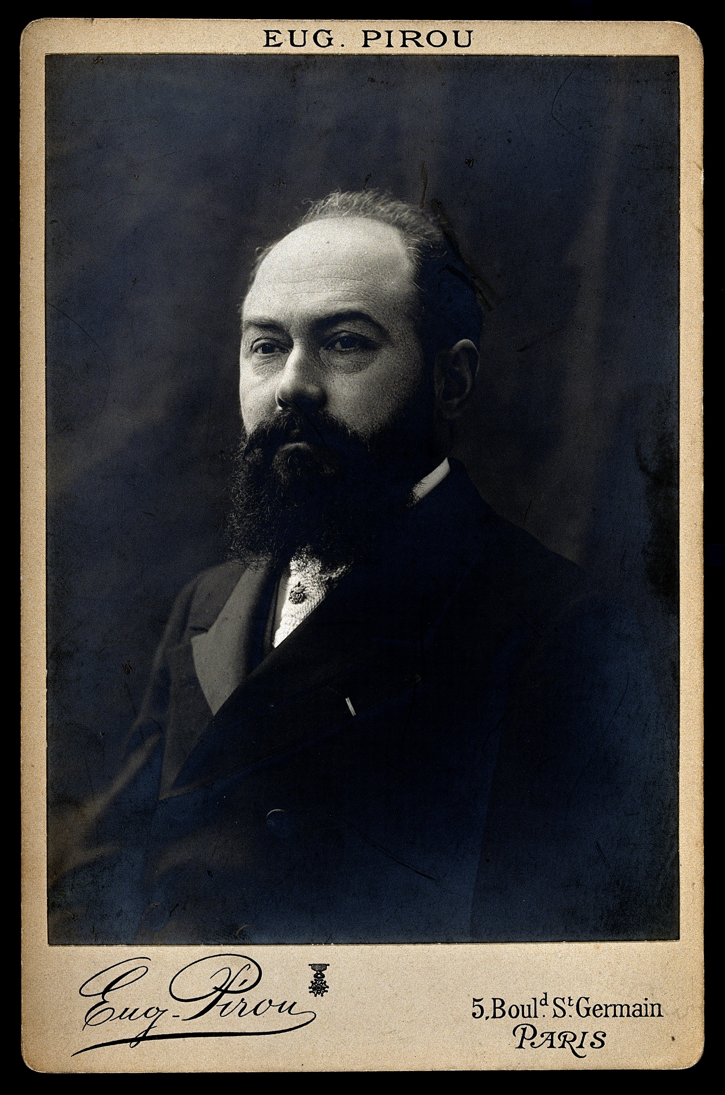 Pierre Janet Marie Felix. Photograph by Eug. Pirou. Iconographic Collections Keywords: portrait photographs